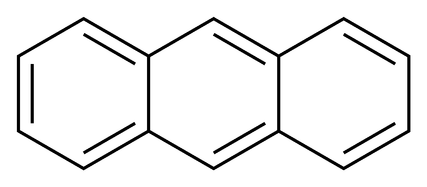 Chemical structure of anthracene, a simple aromatic ring